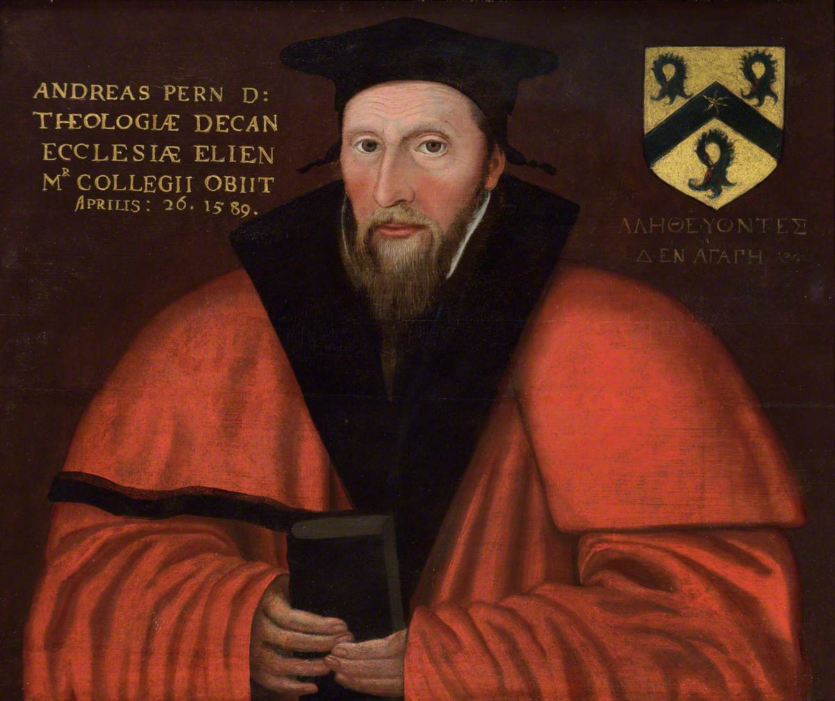 Andrew Perne, Master of Peterhouse, Cambridge and Dean of Ely